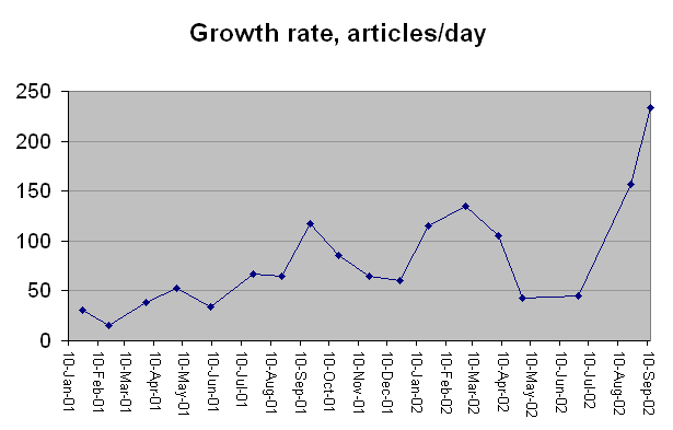 growth rate of Wikipedia to Sep 2002